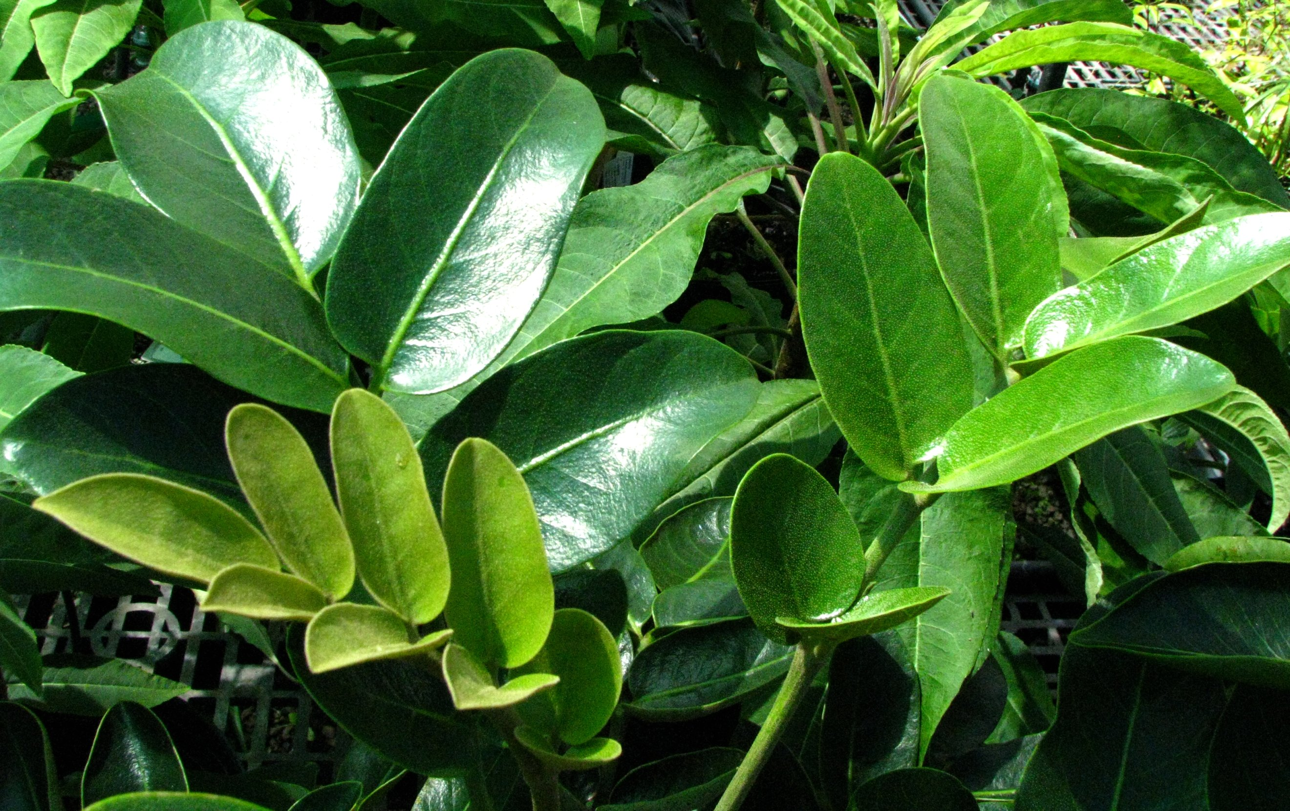 [syn. Tetraplasandra flynnii] ʻOhe or Flynn's ʻohe Araliaceae Endemic to the Hawaiian Islands (Kauaʻi only) Very rare and endangered Kauaʻi (Cultivated)